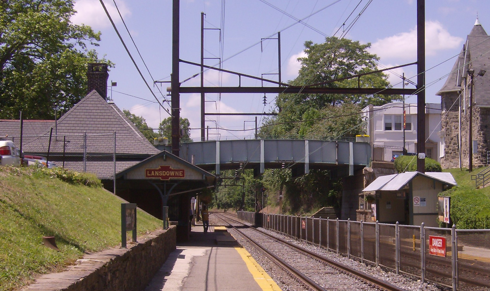 Lansdowne train station